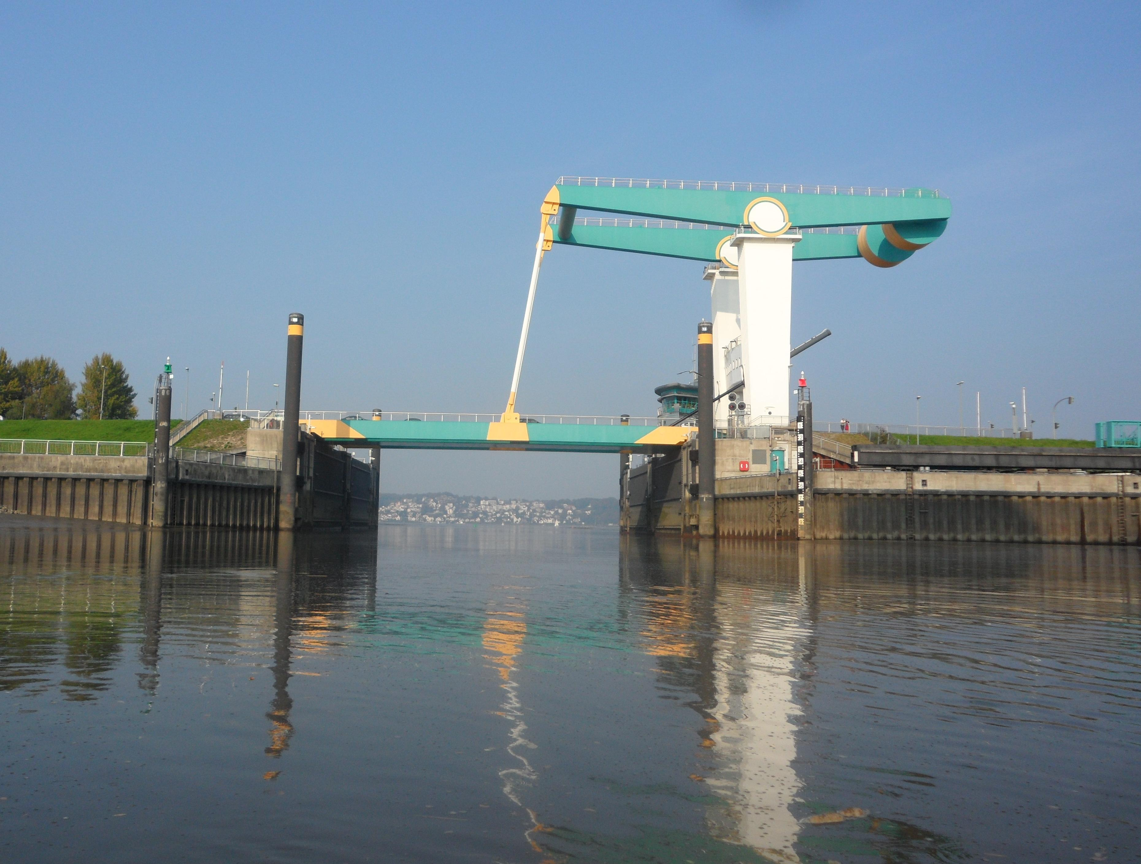 Bridge at the mouth of river Este, in the background river Elbe